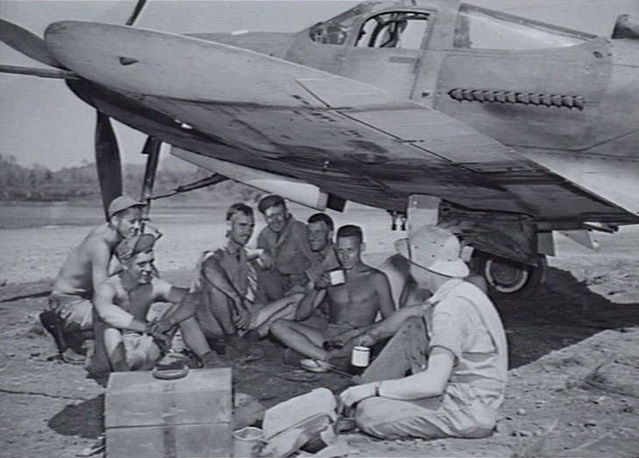 PORT MORESBY, PAPUA, 1942-07-11. UNITED STATES MECHANICS WHO SERVICE THE AIRA-COBRA FIGHTER PLANES WHICH ARE OPERATING IN THE NEW GUINEA WAR ZONE HAVING THEIR MID-DAY MEAL IN THE SHADE OF A WING OF ONE OF THE AIRCRAFT.